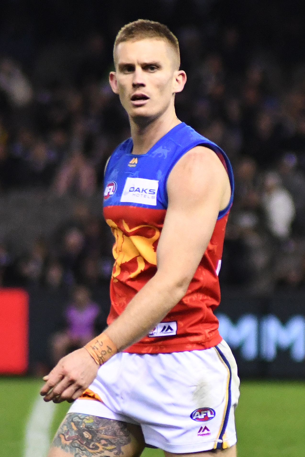 Dayne Beams of Brisbane during the 2018 AFL round 21 match between Collingwood and Brisbane at Etihad Stadium on Saturday, 11 August 2018 in Melbourne, Victoria.